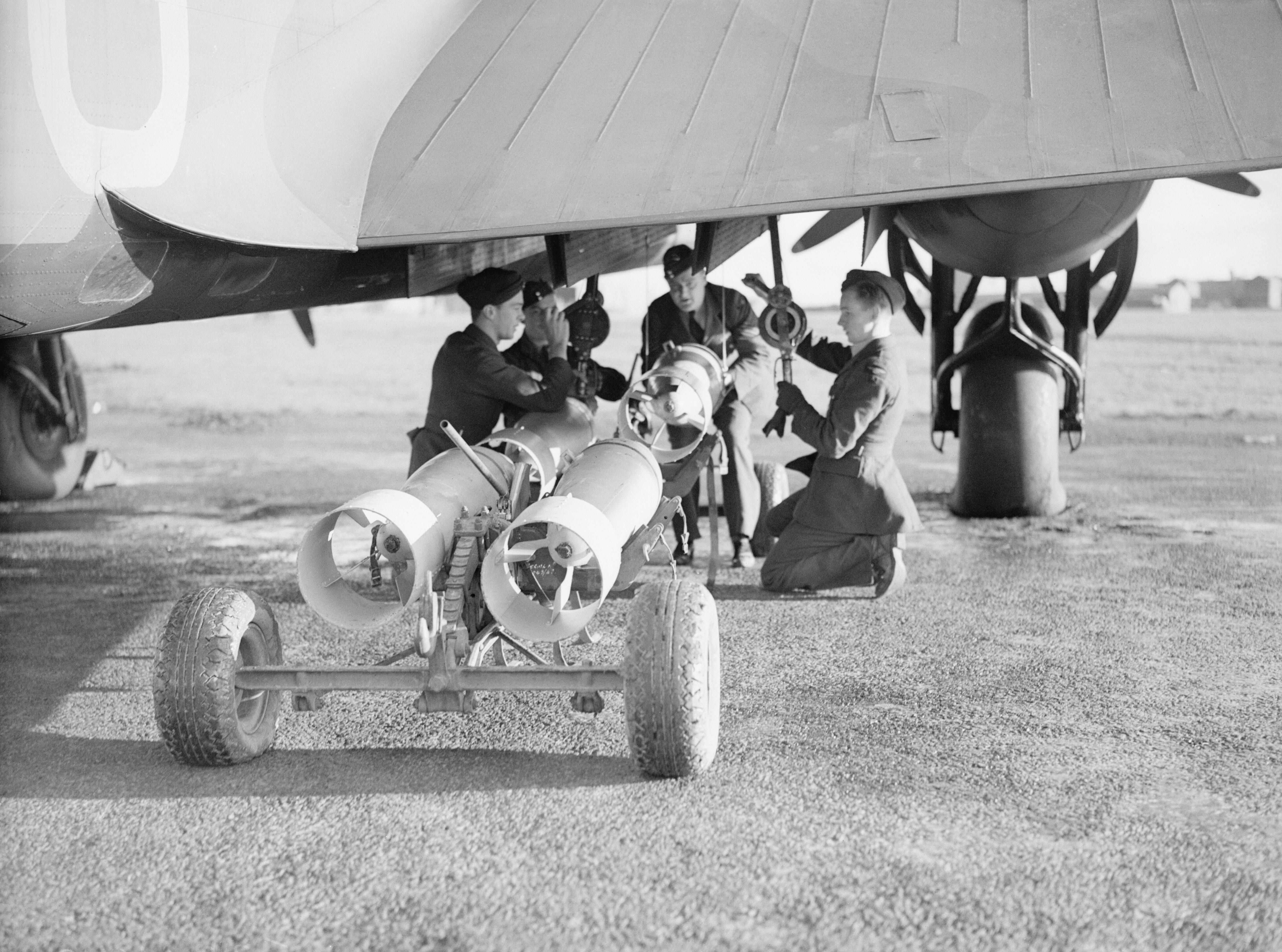 IWM caption : Loading 250lb bounds into an Armstrong Whitworth Whitley Mark V of No 502 (Ulster) Squadron at RAF Aldergrove, Northern Ireland.